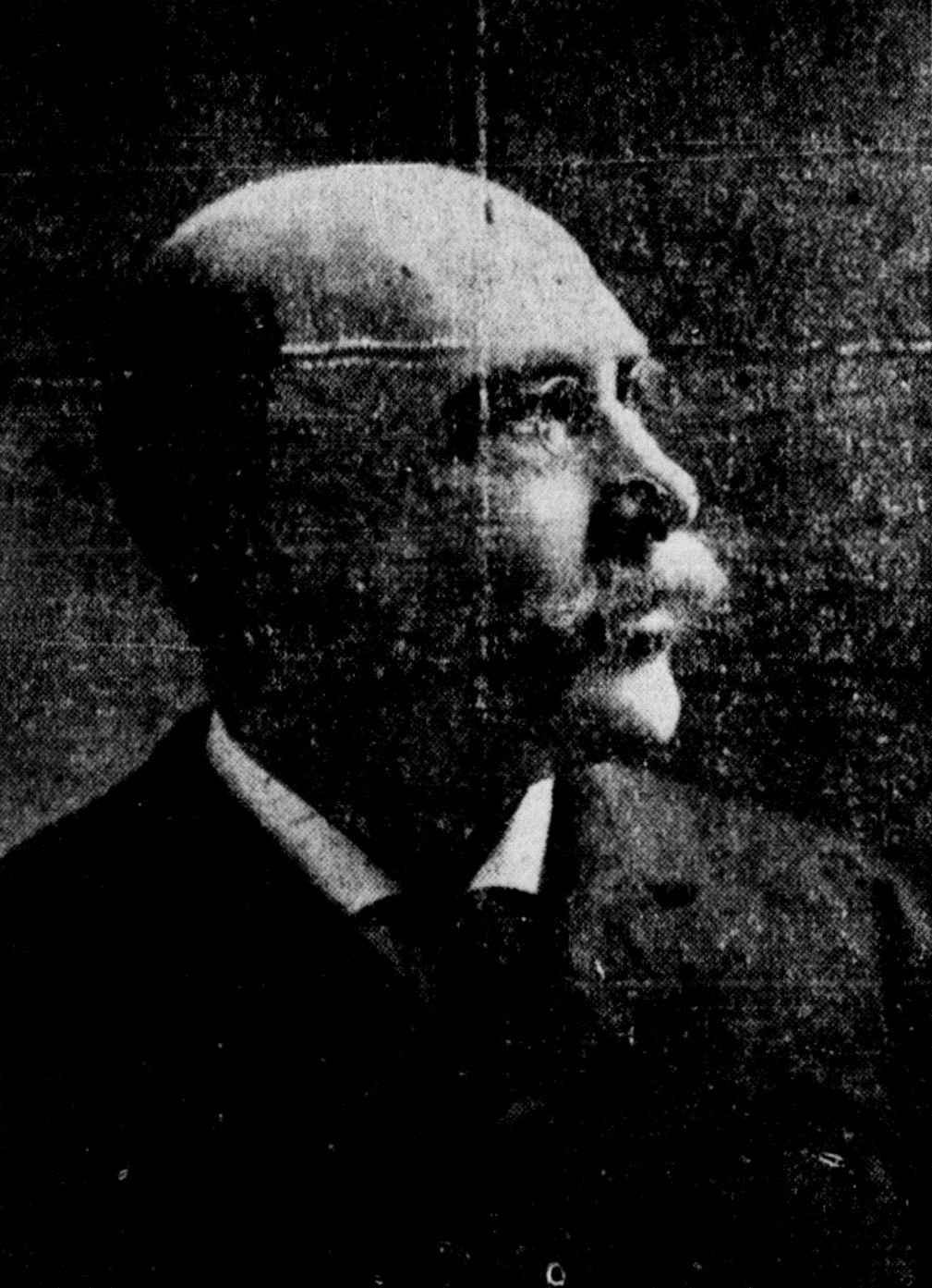 Cyrus Walbridge depicted in a newspaper